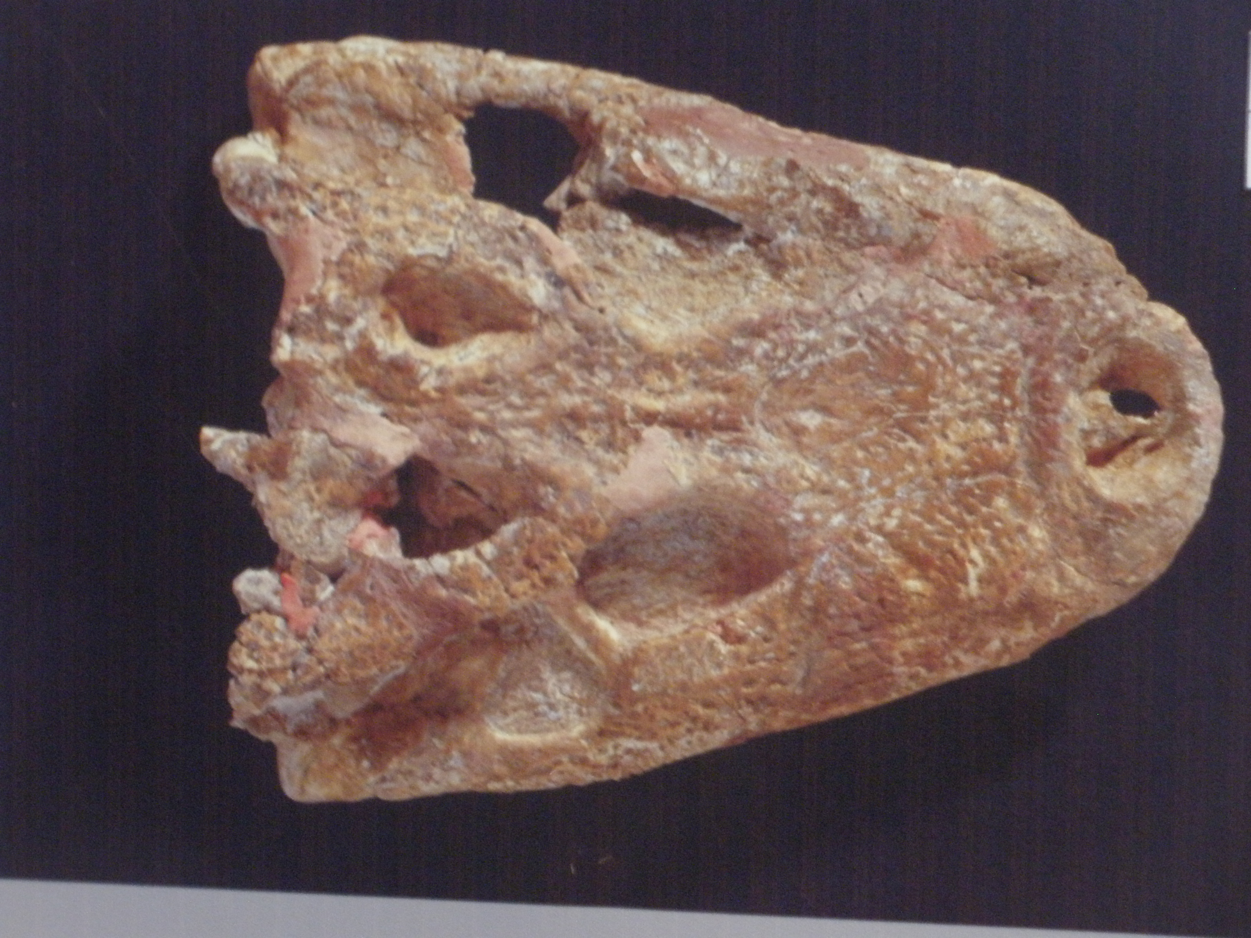 skull of a fossil alligatoroid